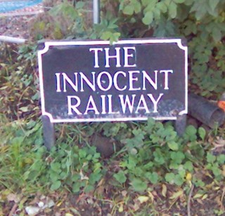 Description: A painted cast iron sign indicating The Innocent Railway Source: Taken by Neil Mackenzie on a K700i mobile phone Date: November 2006 Location: Duddingston Road junction with the The Innocent Railway cyclepath, Edinburgh, Scotland. Author: Neil Mackenzie Permission: This a snap I created myself and release to the public domain